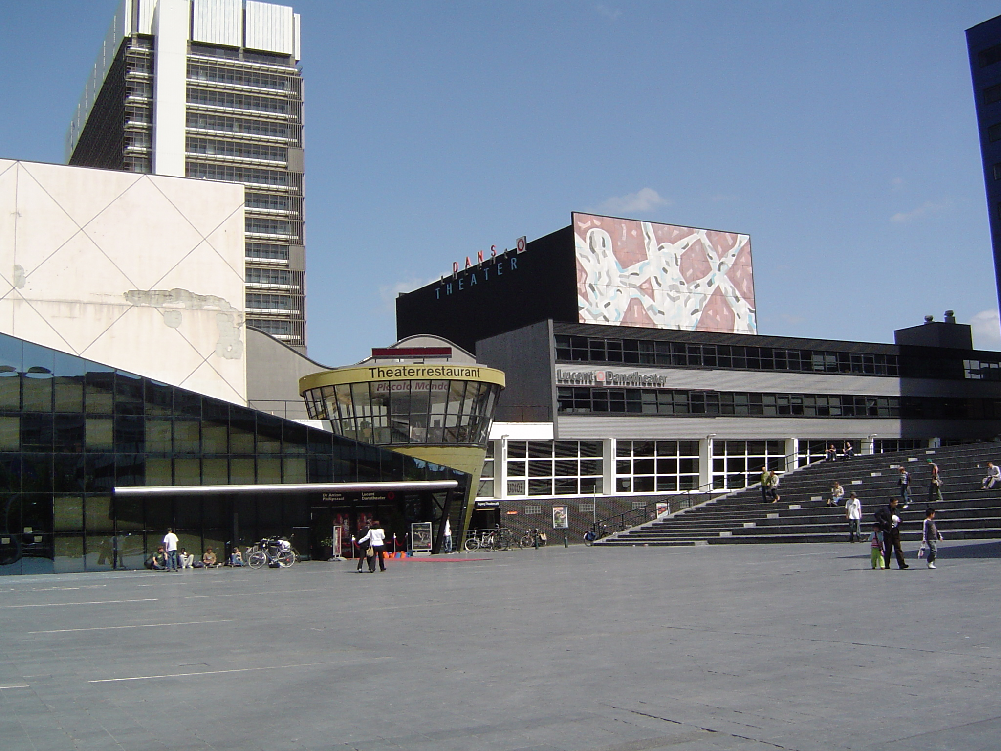 Spui, The Hague, Holland